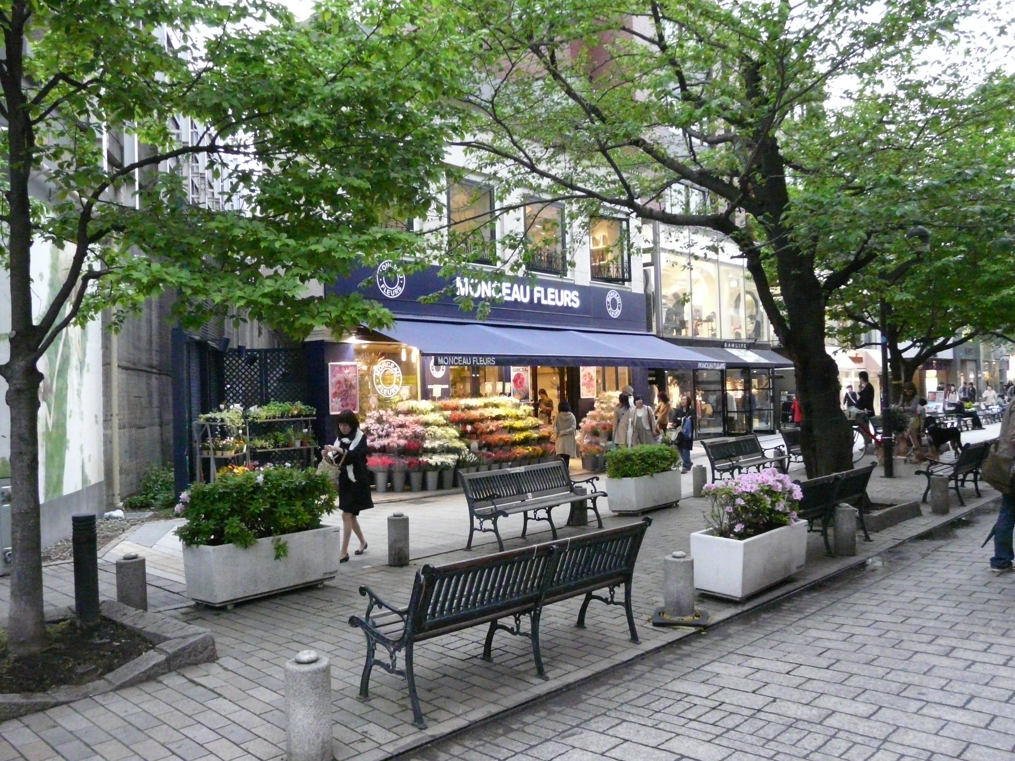 Jiyūgaoka, Tokyo See where this picture was taken. [?]